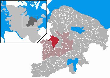 This map shows the area of the Gemeinde (municipality) Pohnsdorf in the Kreis (district) Plön, Schleswig-Holstein, Germany.